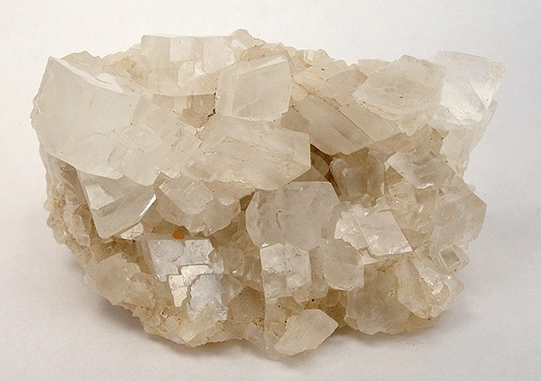 Magnesite Locality: Serra das Éguas, Brumado (Bom Jesus dos Meiras), Bahia, Northeast Region, Brazil (Locality at ) Size: 9.5 x 7.0 x 6.1 cm. Gorgeous, sharp, gemmy magnesite rhombohedra to 2 cm form a nice small cab. Classic Brumado material! A small florencite crystal measuring 2mm is hiding amongst them, which is a nice bonus.